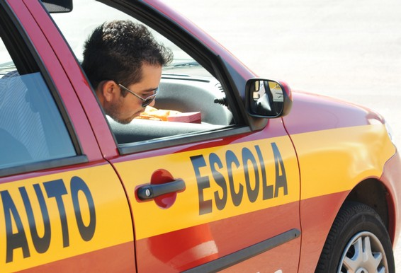 Instructor of self school guided student in classroom practice